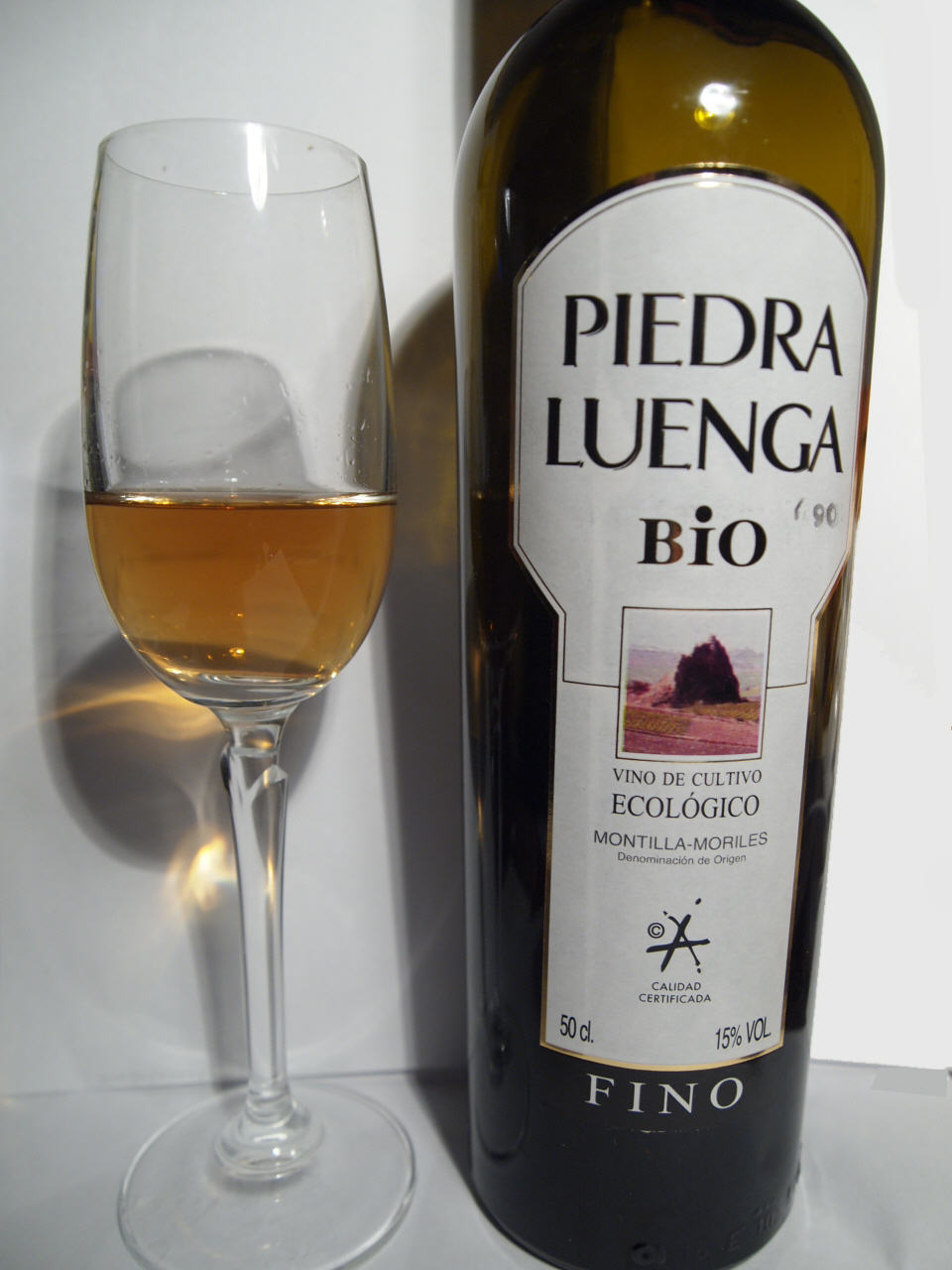 organically grown Fino from Montilla-Moriles